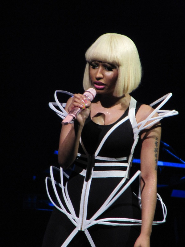 Trinidadian-born American rapper, Nicki Minaj, performing at Britney Spears' Femme Fatale Tour 2011.